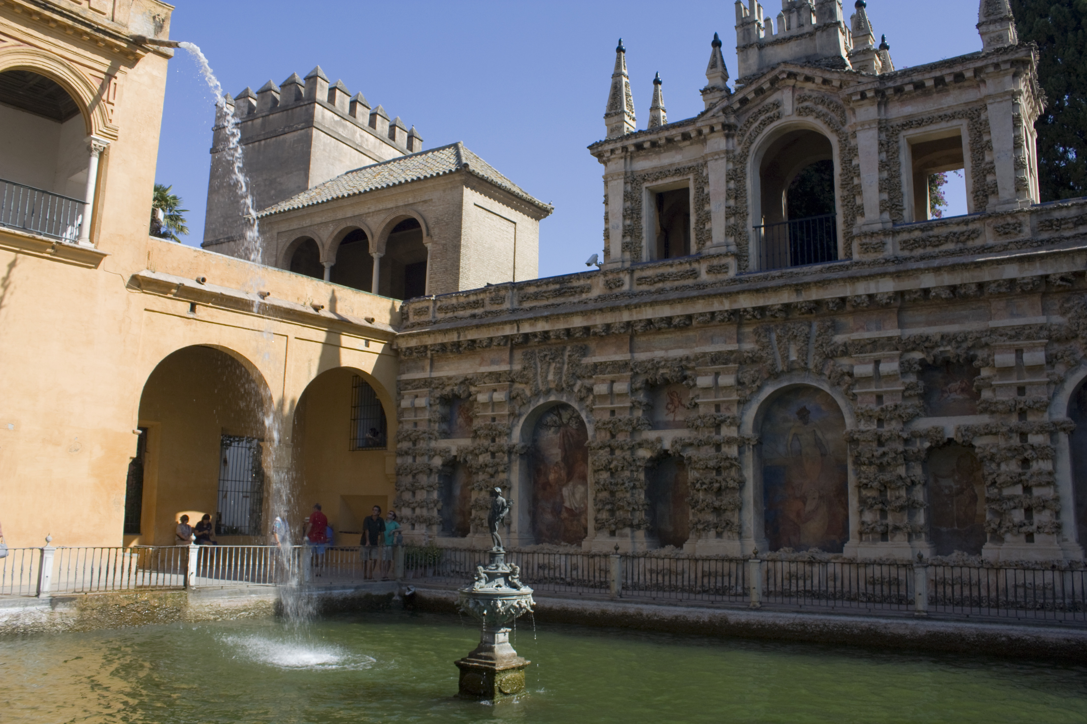 Pond of Mercury at the foot of the Gallery of Grotesques. The fountain is powered by a hydraulic machine recently restored. The frescoes representing wildlife and exotic characters are work of Diego de Esquivel.